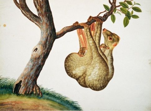 A watercolour drawing of a colugo (Galeopterus variegatus; known in Malay as the kubung), with two of its young hidden in its patagium (gliding membrane). The colugo is sometimes known as the flying lemur, though it is not a true lemur. The drawing is one of 477 natural history drawings of plants and animals of Malacca and Singapore commissioned by William Farquhar.